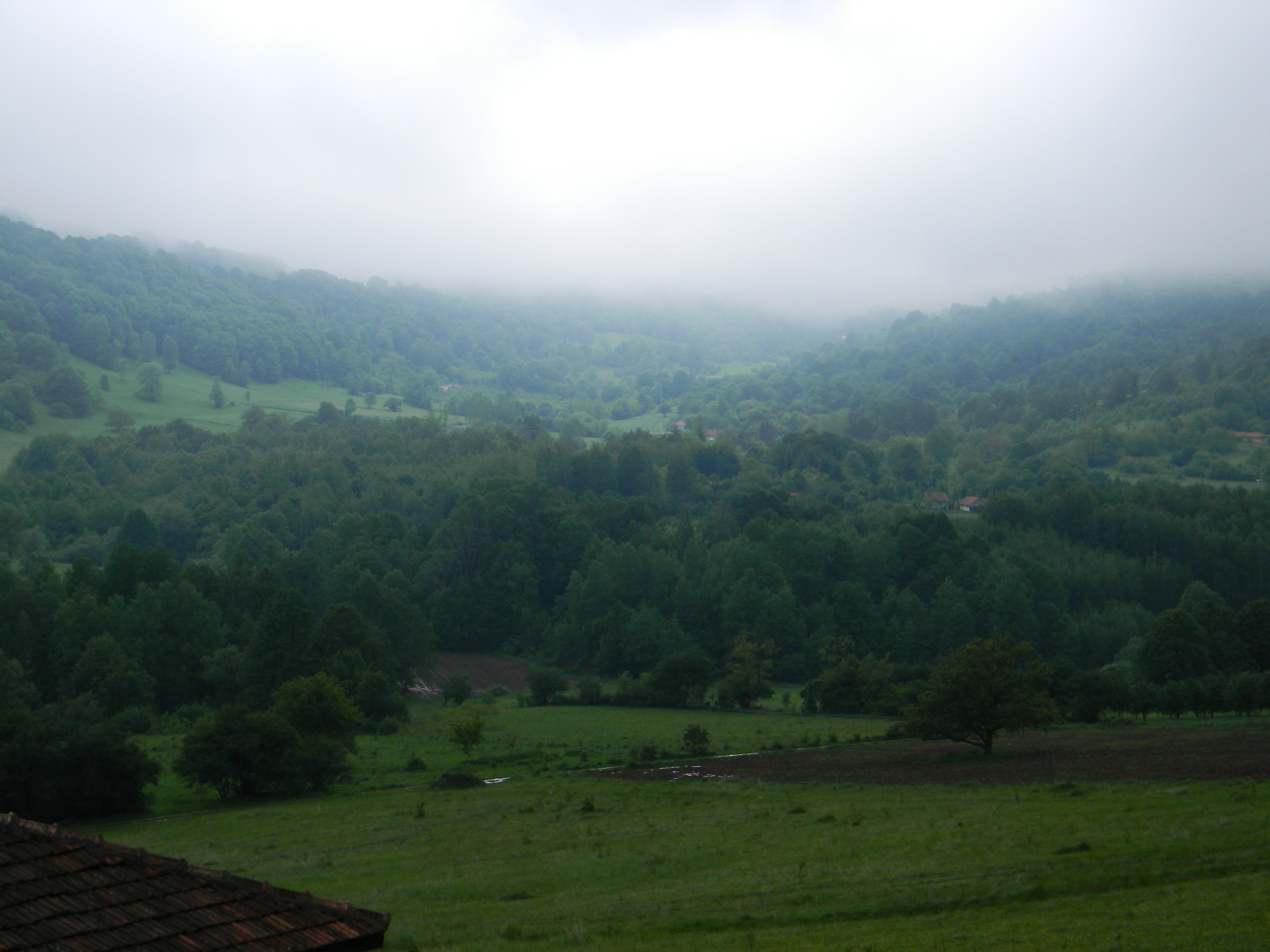 Beljanica mountian